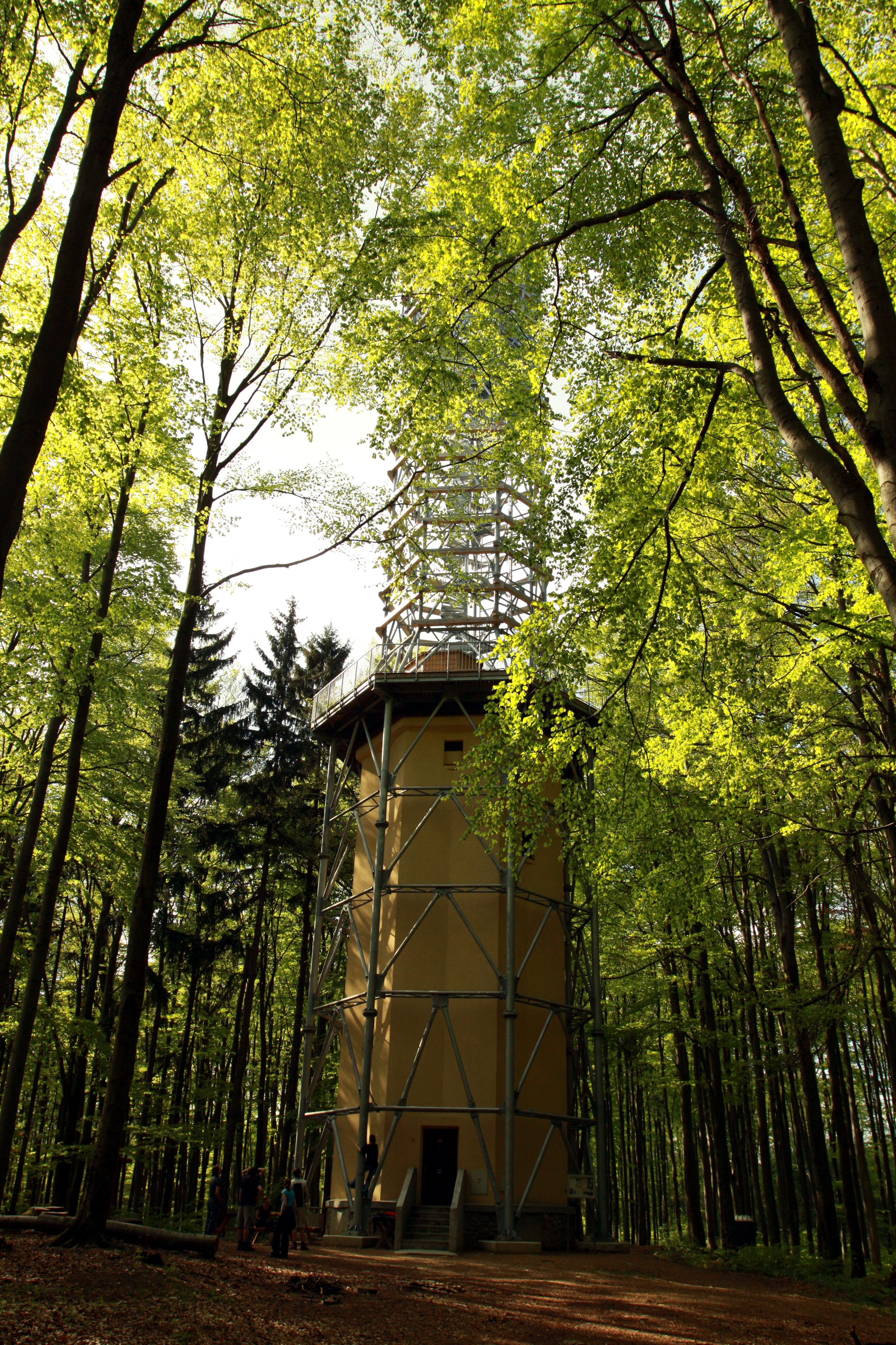 Watch tower in nature reserve Velký a Malý Kamýk in České Budějovice District close to Albrechtice nad Vltavou, Czech Republic